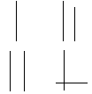 A minimalist version of CTRL+ALT+DEL Webcomic "Loss", commonly used as an internet meme